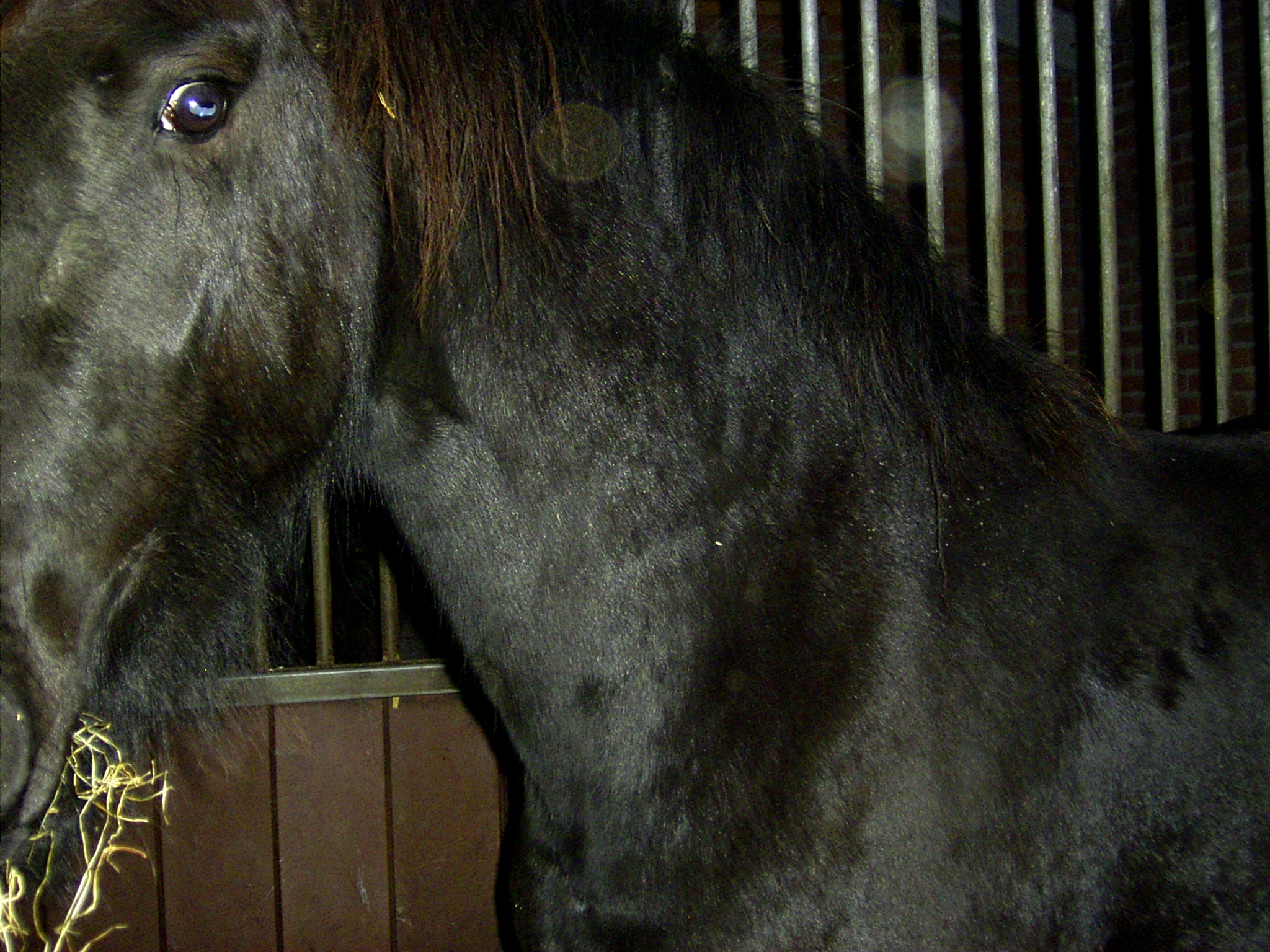 "Horse infected with itch"